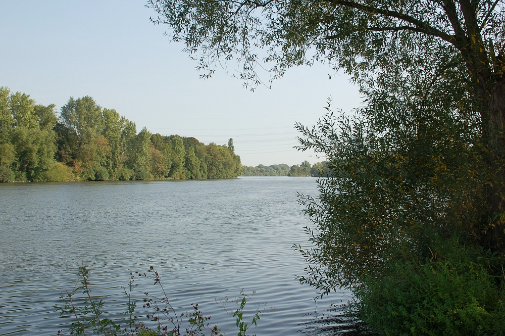 River Main, near Kelsterbach, Germany